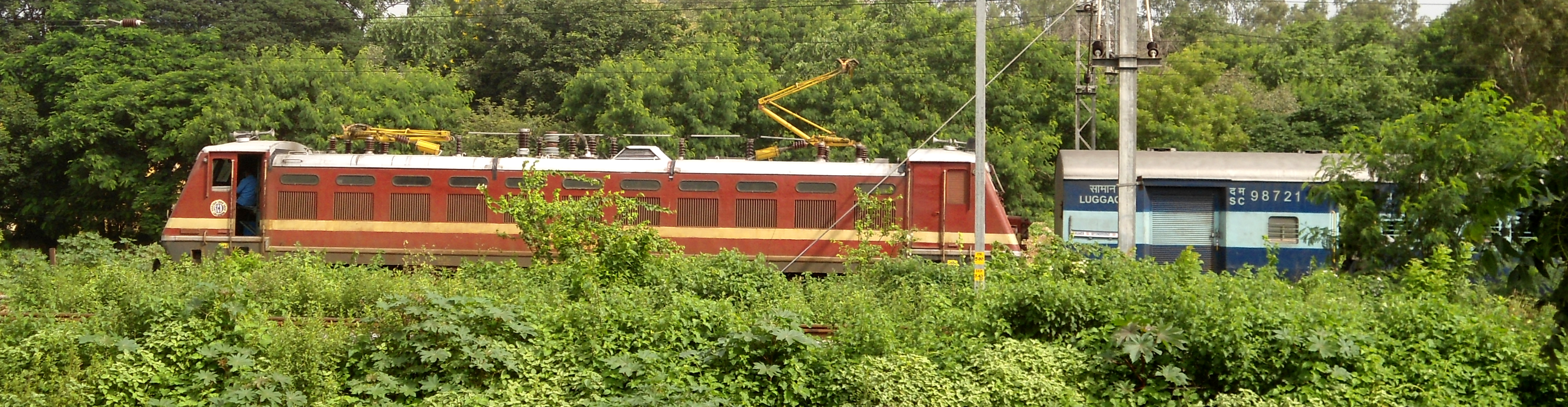 WAP4 series loco with (Bikaner - Secunderabad) Express at Secunderabad